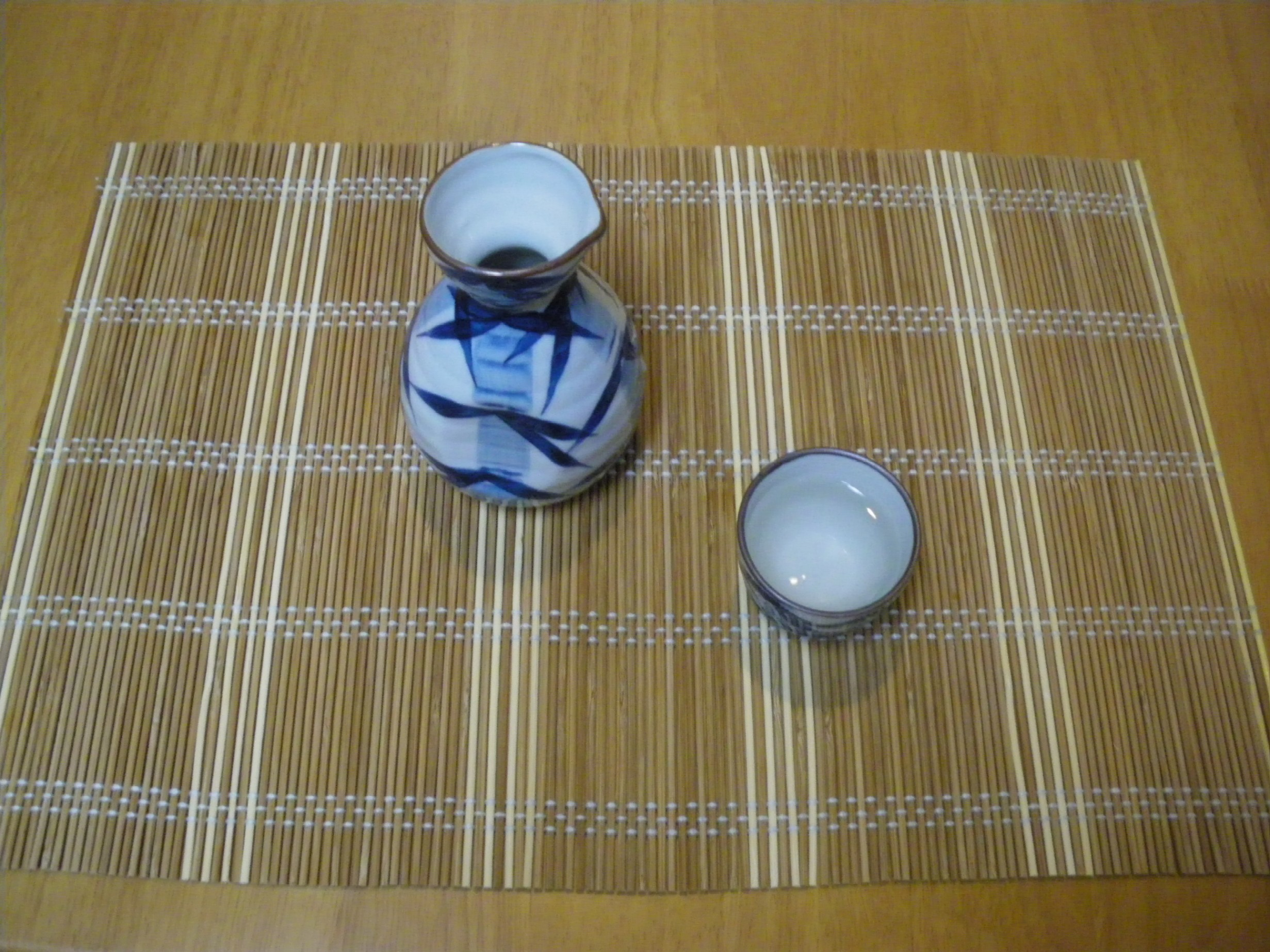 photo of a Japanese sake bottle(tokkuri) and sake cup(sakazuki or guinomi).